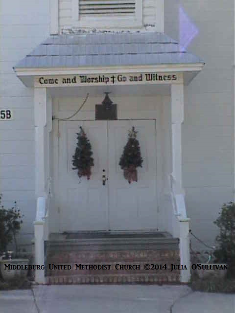 Middleburg United Methodist Church, Main Street, Middleburg, FL 32068 - This Historical Chapel will invite you in to do what our church motto is, as it is inscribed on the church: Come and Worship, Go and Witness. Photograph ©2014 Julia O'Sullivan, member of M.U.M.C. Come and visit our little historic church, and, see the good we do for the poor throughout the area, and, hear our Chancel Choir, singing beautifully, bringing joy all year long.